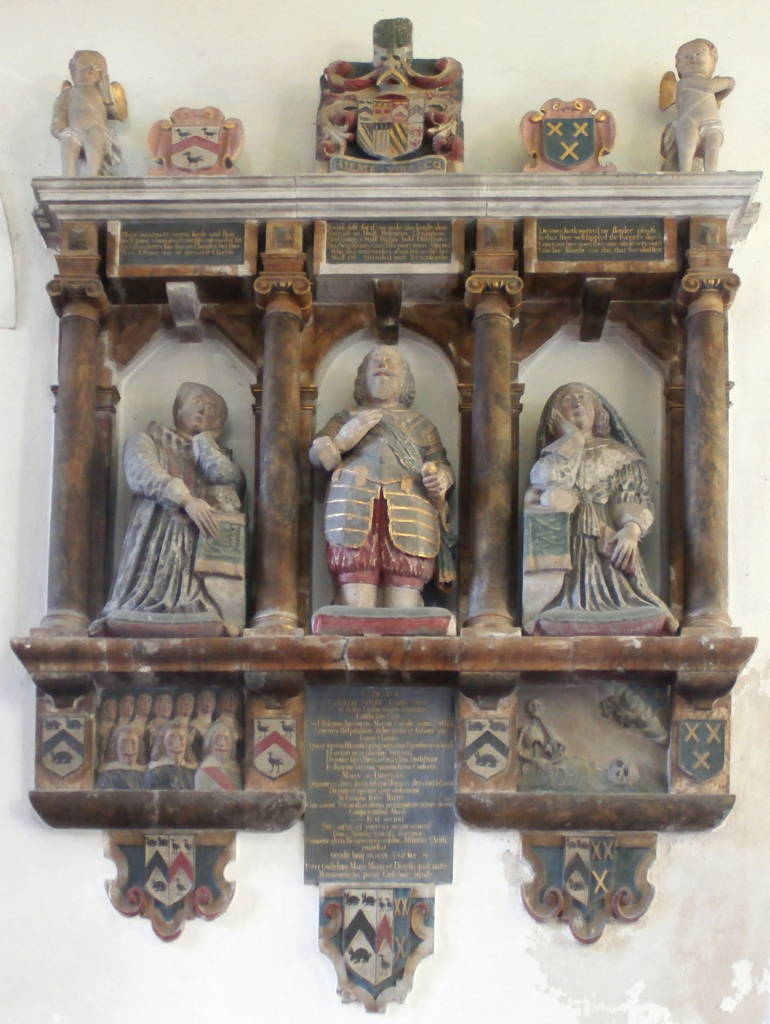 Mural monument to Sir William Strode (died 1637) on the north wall of the Strode Chapel in the church of St Mary's Plympton. According to Stabb, J., Some Old Devon Churches, London, 1908-16, p. 184: "In the centre kneels his effigy in armour with hand on sword. On either side of him are female effigies kneeling each at a prie dieu, to the left his first wife Mary Southcott, who died in 1617, and to the right Dunes (Dewnes or Dyonisia) the second Lady Strode. On a panel beneath Mary Southcott are low-relief sculpted figures of her seven daughters and three sons. Underneath the effigy of Dunes is a representation of Death cutting with his sickle a flower then grasped by the hand of God appearing out of a cloud above." For arms of top shield see